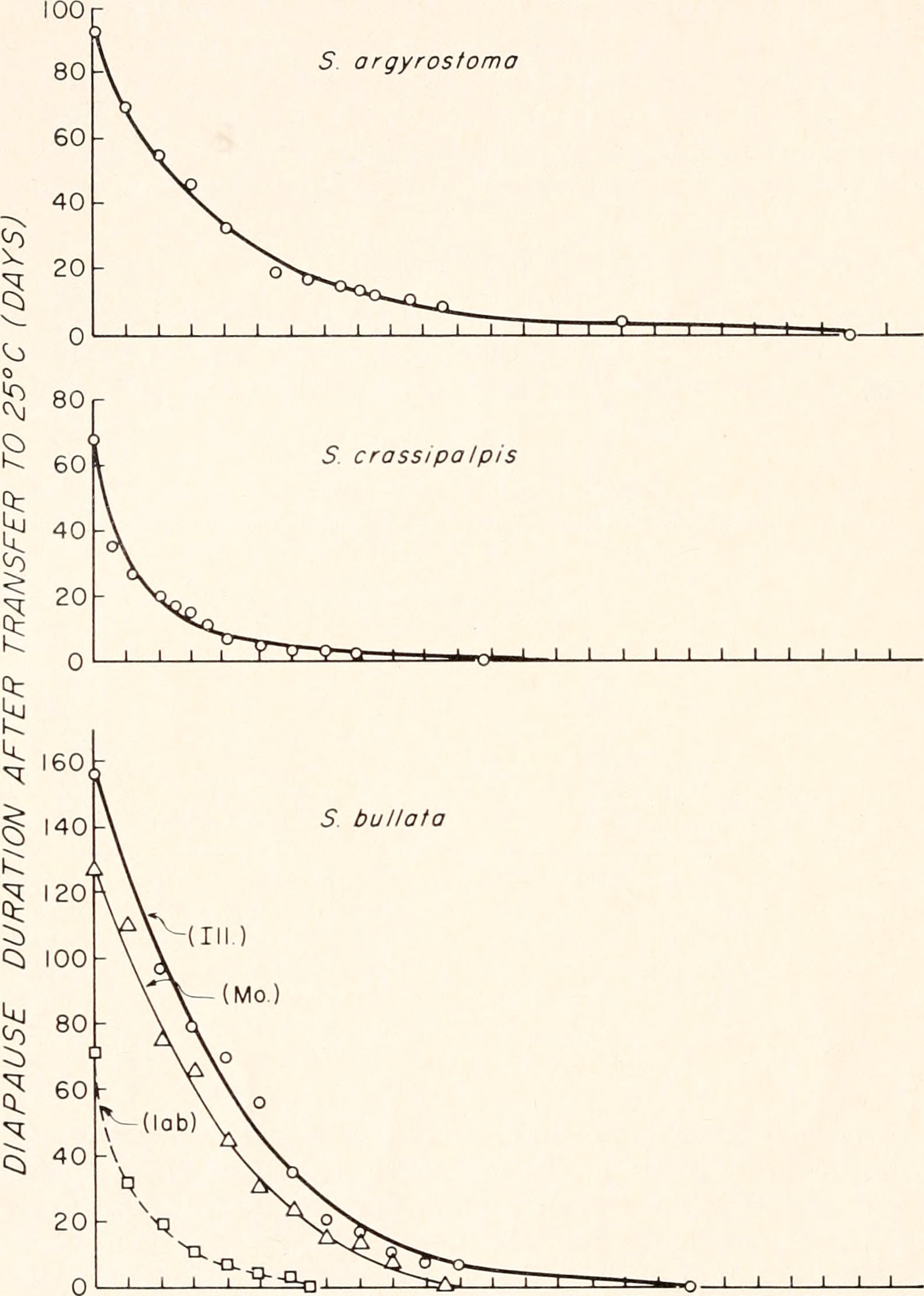 Title: The Biological bulletin Year: [1] (s) Authors: Marine Biological Laboratory (Woods Hole, Mass. ); Marine Biological Laboratory (Woods Hole, Mass. ). Annual report 1907/08-1952; Lillie, Frank Rattray, 1870-1947; Moore, Carl Richard, 1892-; Redfield, Alfred Clarence, 1890-1983 Subjects: Biology; Zoology; Biology; Marine Biology Publisher: Woods Hole, Mass. : Marine Biological Laboratory Text Appearing Before Image: 18 DAVID L. DENL1NGER 5. orgyrostomo i- i i -*n i ' Text Appearing After Image: 20 40 60 80 100 120 140 160 180 200 220 240 DAYS AT 17° C FIG i'RE 3. Duration of diapause in Sarcophaga species and strains at 25° C after various lengths of time at 17° C. Points on axes are from Table II; all other points represent the mean of 25-30 pupae. d.f. =: 446, M.S. =: 164). The estimated regression equation is Y = 69.41 - • 4.78X + 0.16X2, where X is coded temperature. By providing diapausing pupae with a combination of 17 and 25° C, the dura- tion of diapause decreases to a lower level than is observed with constant exposure to either temperature. Groups of 25-30 pupae were transferred from 17° to 25°